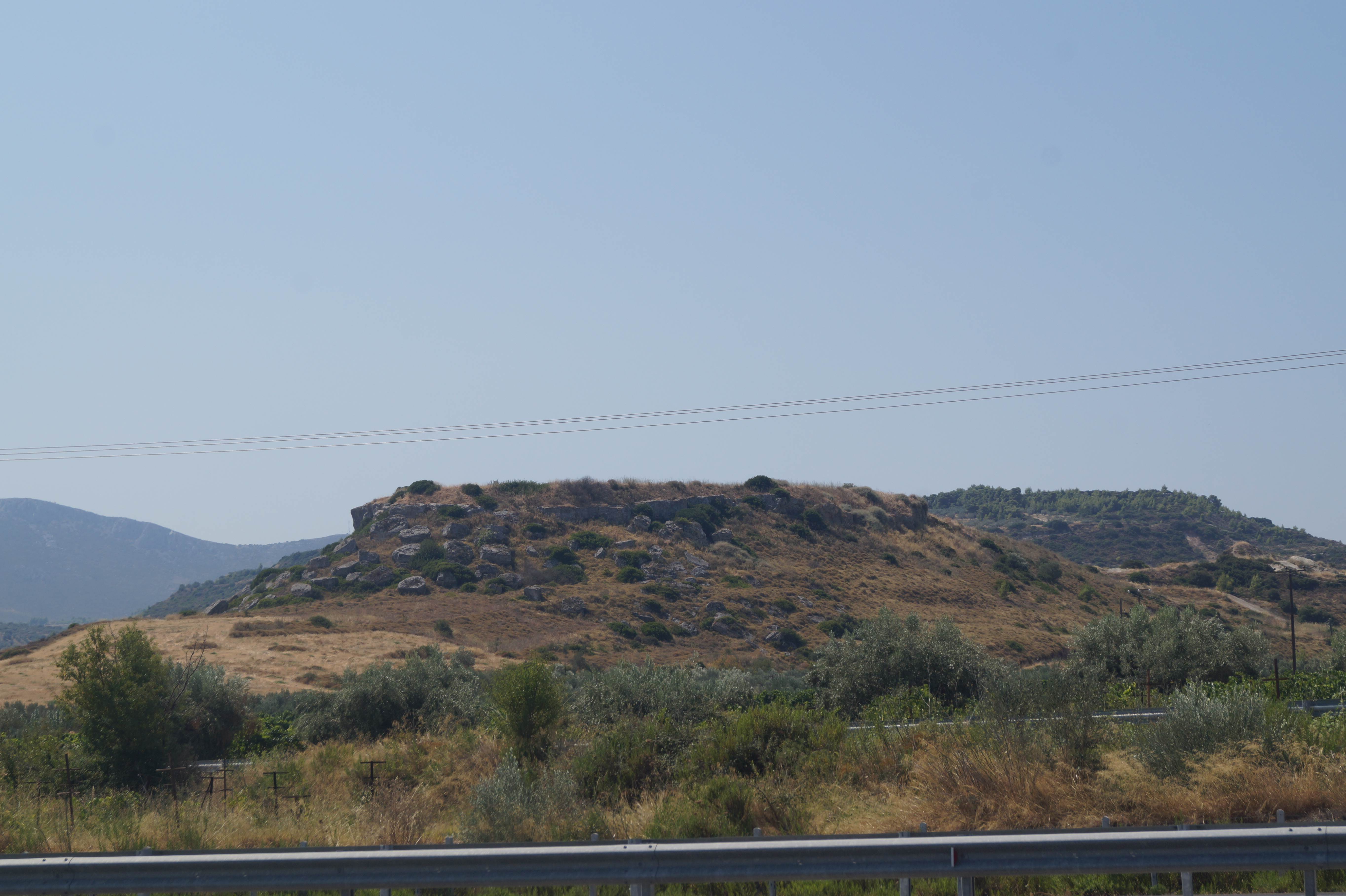 Assos, Corinthia: View from the rest area near Assos on the Ethniki Odos 8a on the archaeological site Aetopetra.